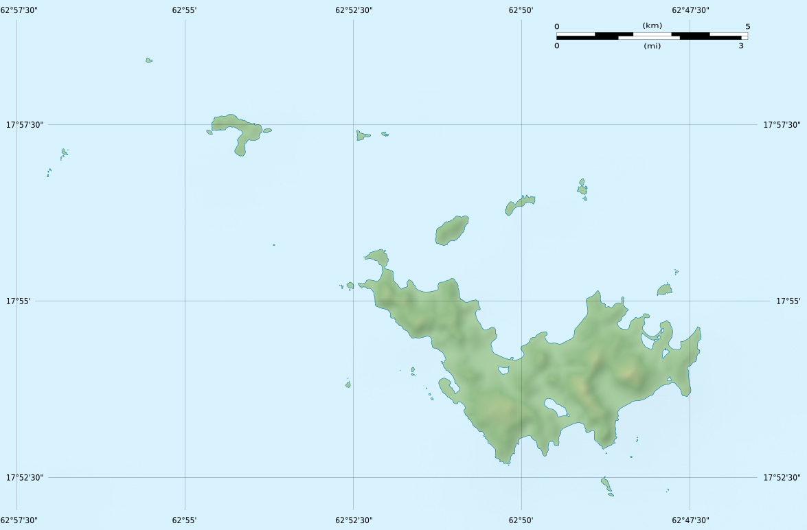 Blank physical map of the overseas collectivity of Saint Barthélemy, France, for geo-location purpose.